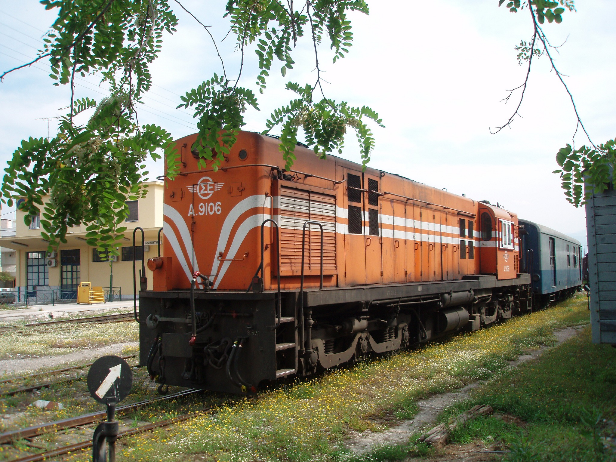 GREECE: ALCo DL537 metric line locomotive of Hellenic Railways Organization (OSE) at Corinth Old Railway Station.